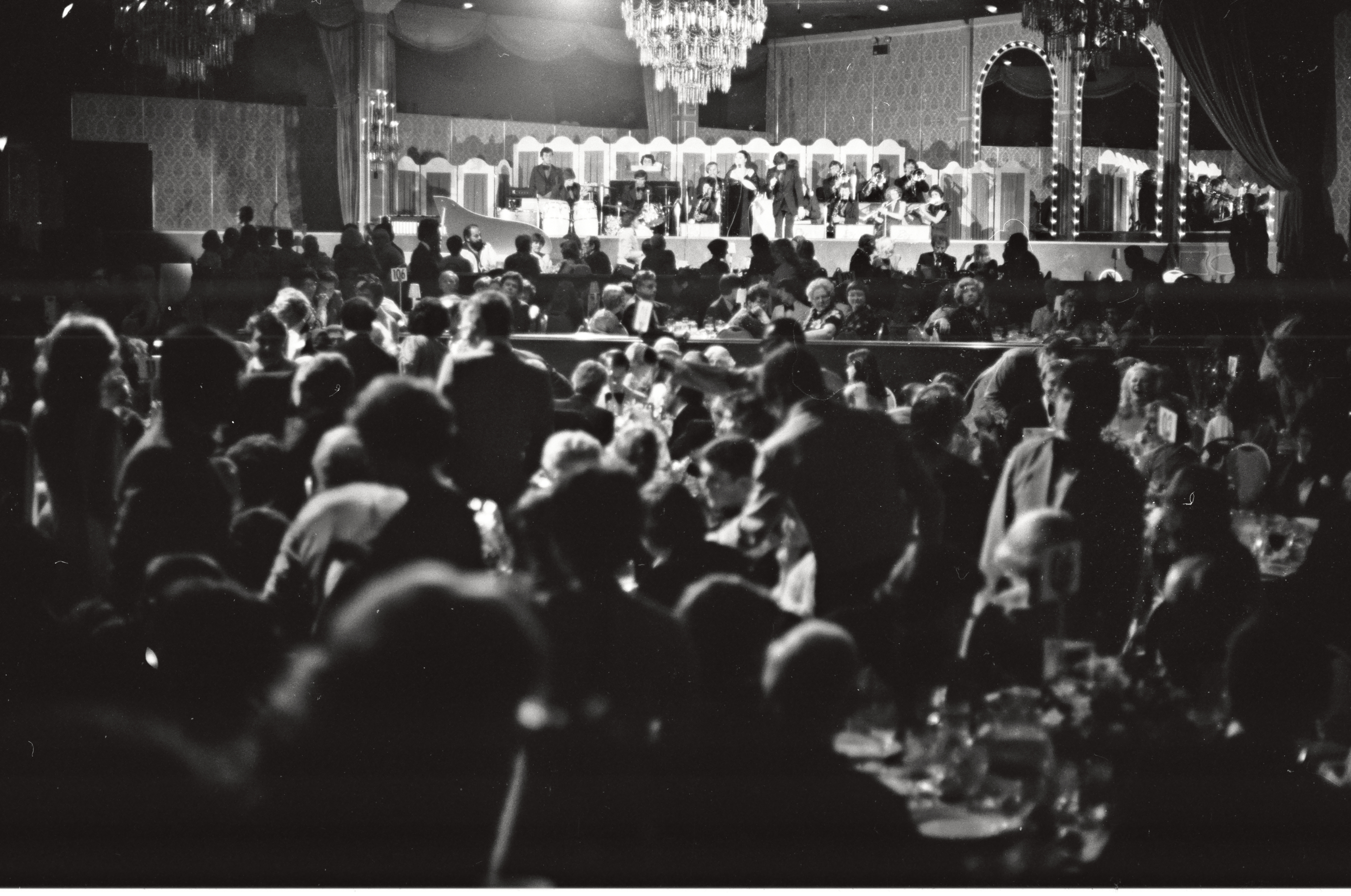 The ballroom of the Beverly Hilton Hotel was the setting for the awards ceremony at the National Film Society convention, May 1979. NOTE: Permission granted to copy, publish, broadcast or post any of my photos, but please credit "photo by Alan Light" if you can. Thanks